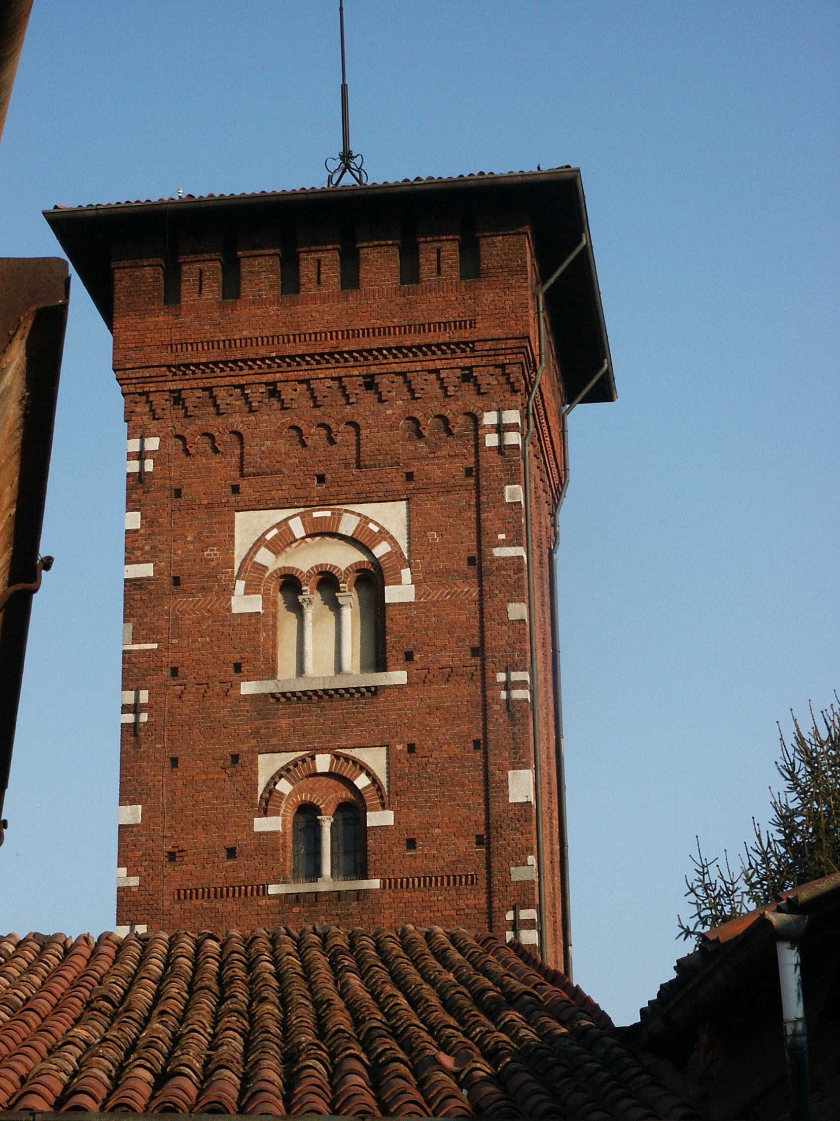 Architect: Giuseppe Sanguettola. - City of Lomazzo, Province of Como, Bassa Comasca, Lombardy Region.